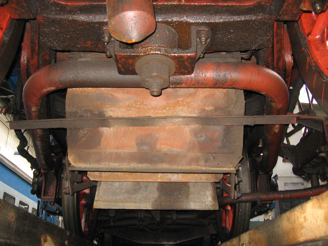 Bissel bogie and ash box on the ČD (Czech railways) 498.022